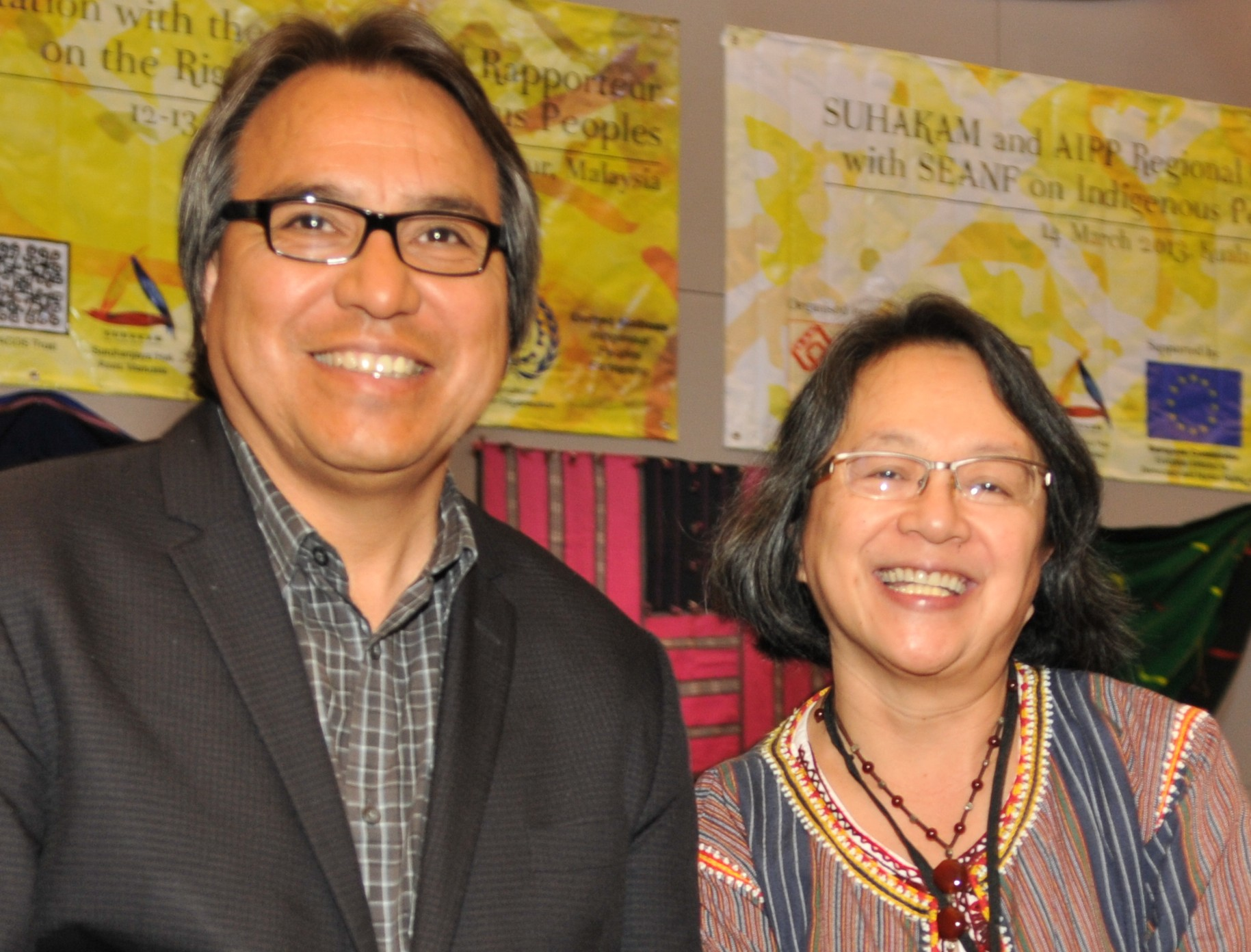 James Anaya, UN Special Rapporteur on the Rights of Indigenous Peoples until June 2014 his successor Victoria Tauli-Corpuz, March 2013, Kuala-Lumpur